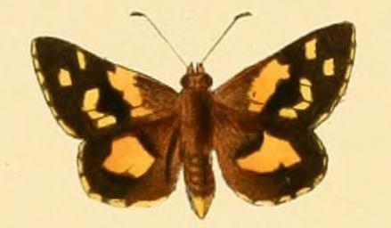 Plate: Cyclopides & Hesperilla Cyclopides croites. Fig. 14. Accepted as Croitana croites (Hewitson, 1874).